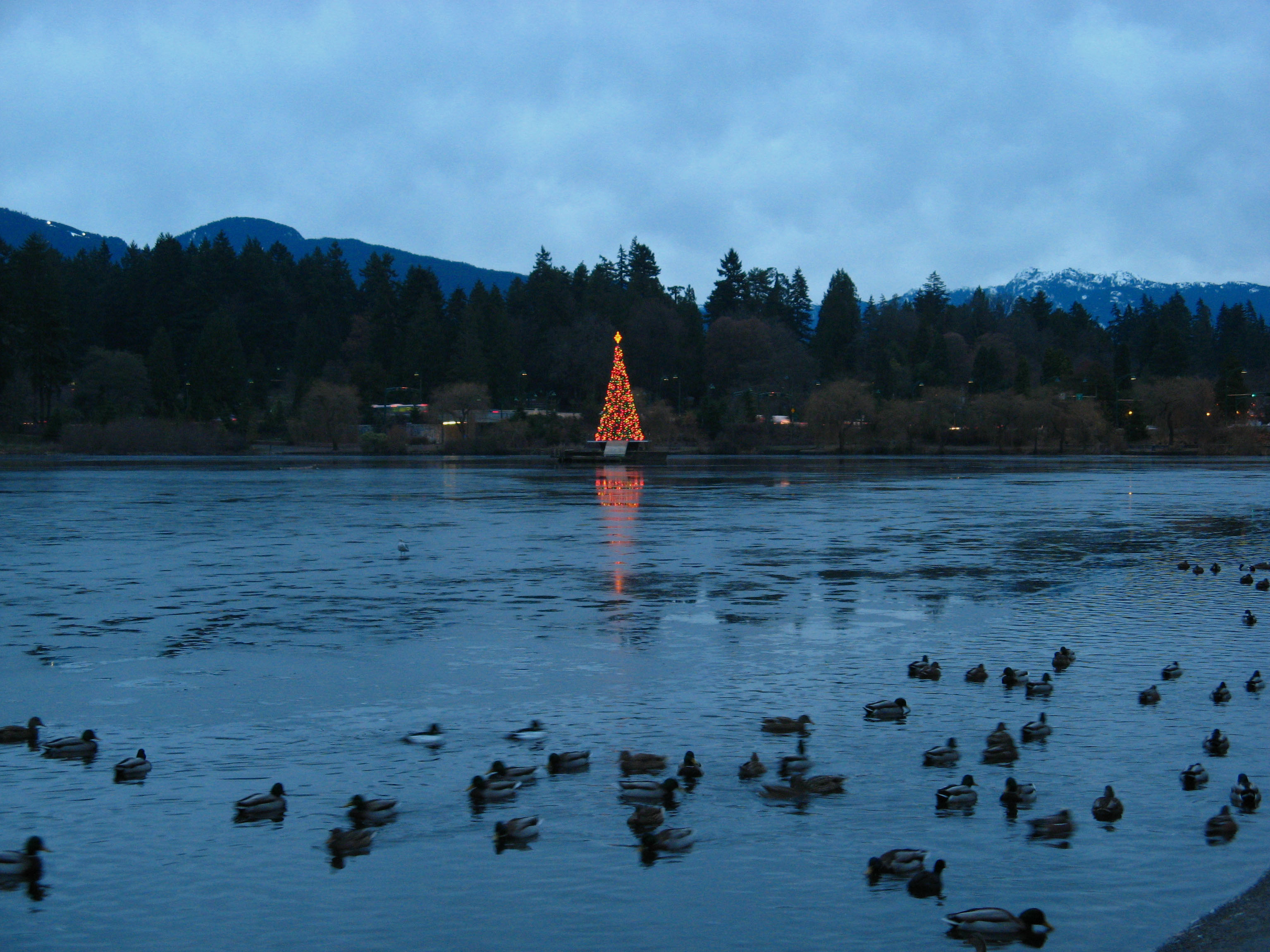 Lost Lagoon at twilight, Stanley Park, Vancouver, Canada